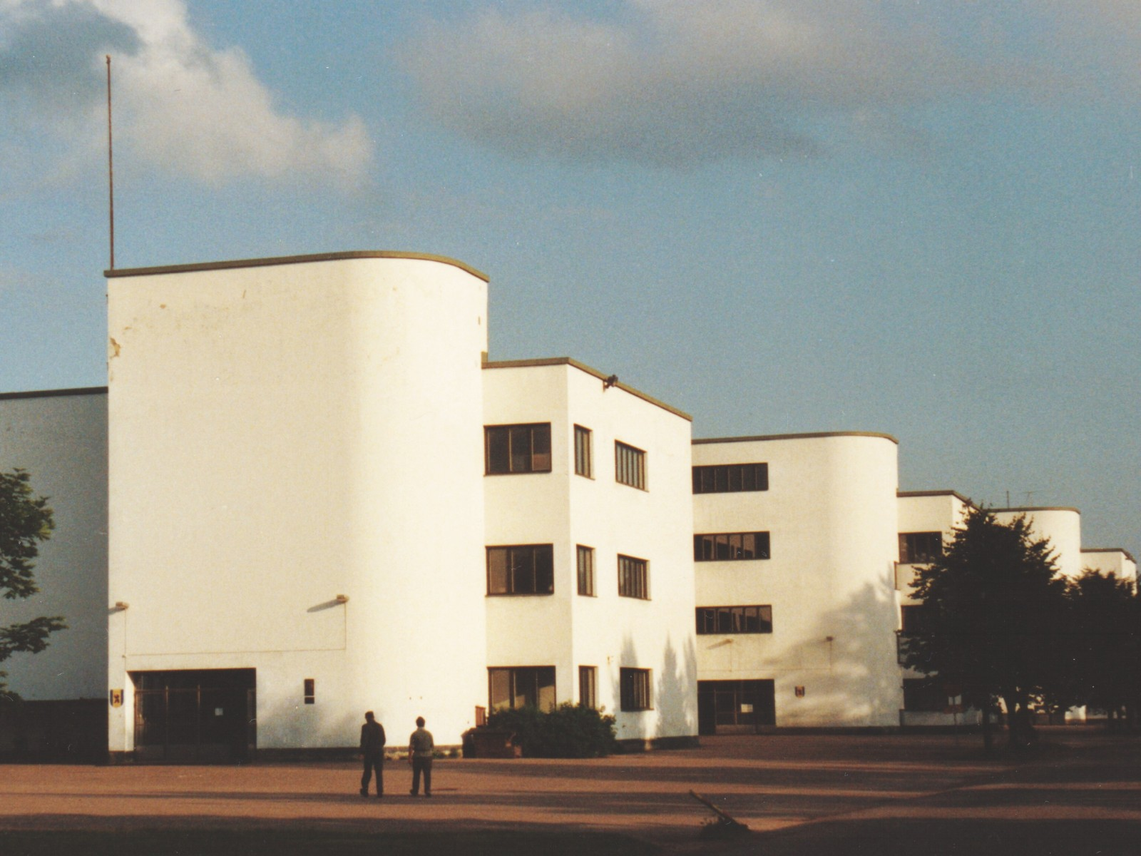 "Lamellikasarmi"-barracks in Niinisalo garrison in city of Kankaanpää, Finland. Completed in 1935. Architect: Kalle Lehtovuori.